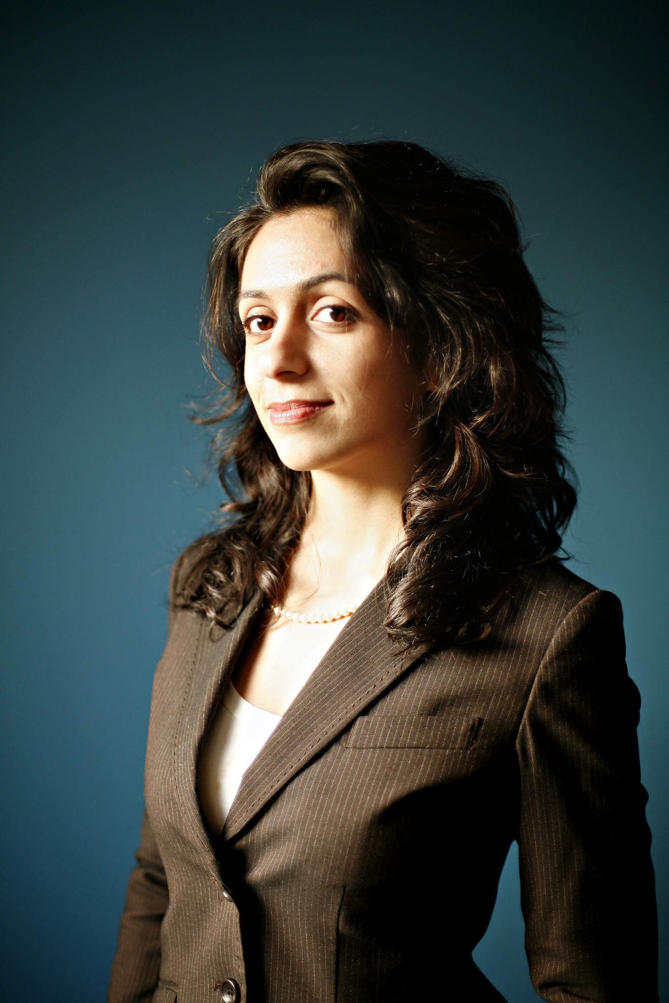 Hadia Tajik, Norwegian politician (Labour Party)